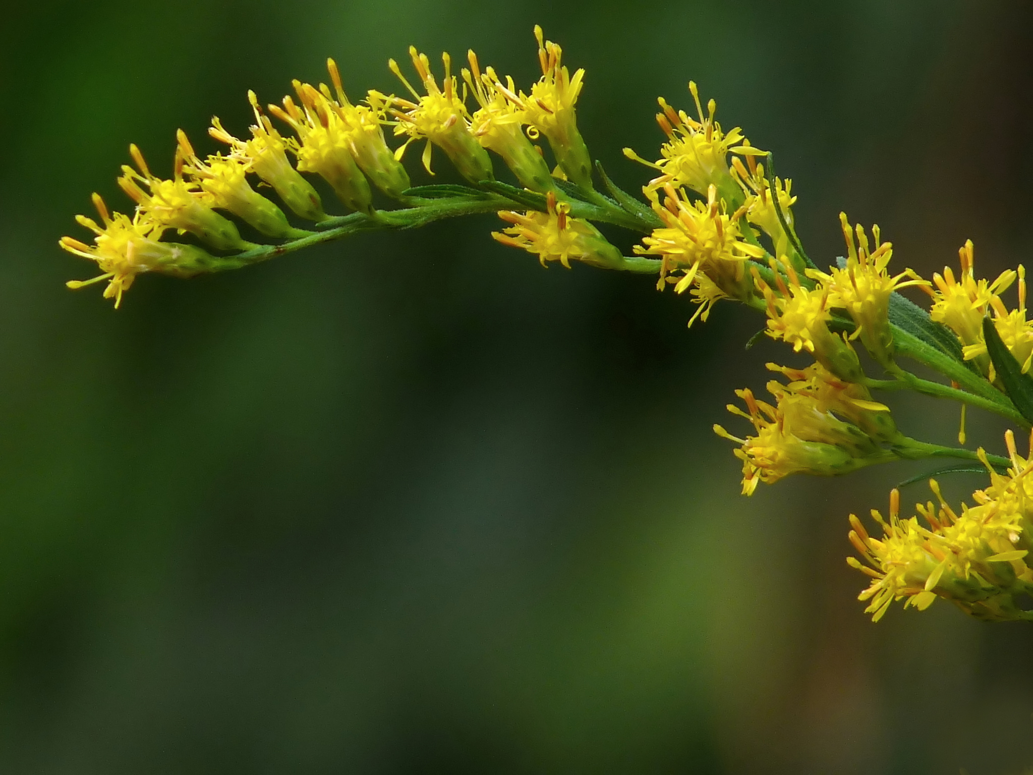 Solidago canadensis, Common goldenrod, Canada goldenrod, is an herbaceous perennial plant of the family Asteraceae native to North America. It is often grown as a wildflower. The plant is erect, often forming colonies. Flowers are small yellow heads held above the foliage on a branching inflorescence. It occurs in many habitats, including waste areas, meadows, and on the margins of forests. Goldenrod is cultivated in cooler regions, and used in floral arrangements. The color burst of golden yellow in late summer is dramatic. Goldenrods are easily recognized by their golden inflorescence with hundreds of small capitula, but some are spike-like and other have auxiliary racemes. They have slender stems, usually hairless but S. canadensis shows hairs on the upper stem. They can grow to a length between 60 cm and 1.5 m. Their alternate leaves are linear to lanceolate. Their margins are usually finely to sharply serrated.